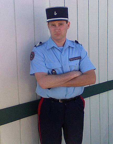 Eric Bruno Borgman on the set of The Pink Panther.